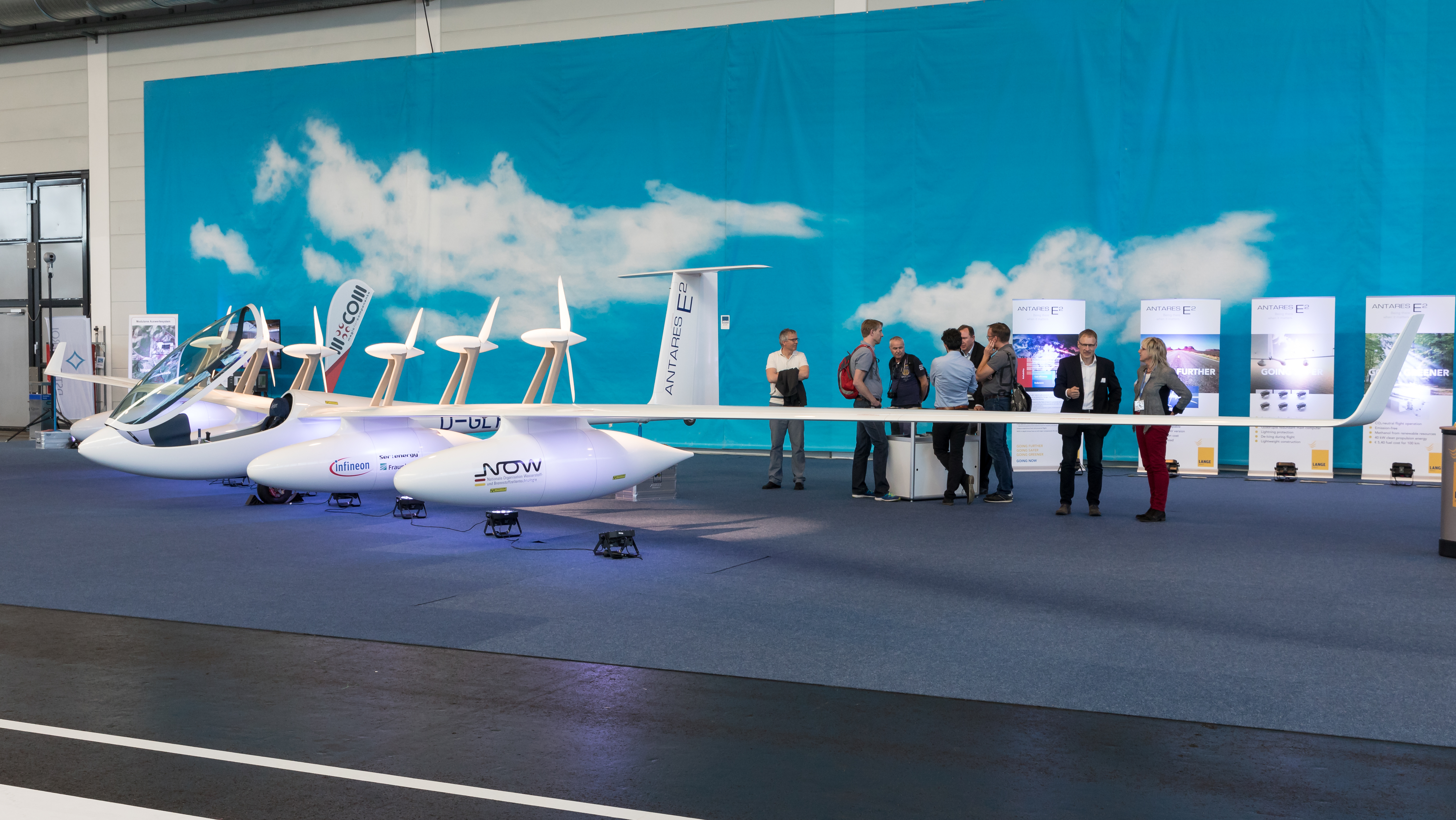 Fuel Cell powered Antares E2 at AERO Friedrichshafen 2018